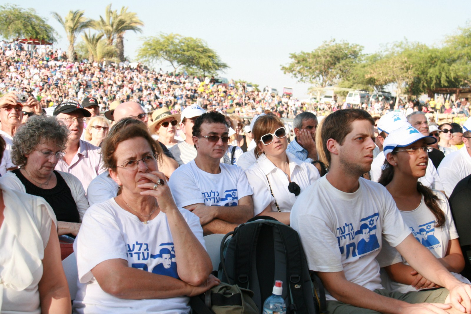 Aviva and Yoel Shalit watching the open-air concert by the Israel Philharmonic Orchestra and show solidarity with captive soldier Gilad Shalit in \"Ashkol park\", near the Gaza border, when he been kidnap.